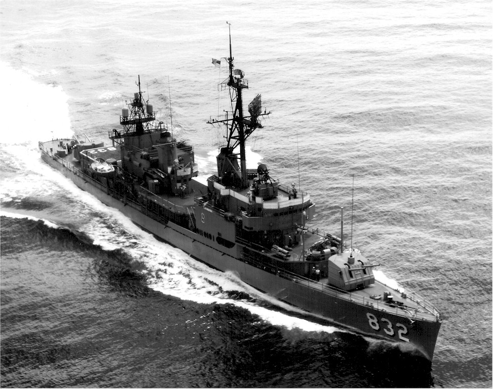 The U.S. Navy destroyer USS Hanson (DD-832) underway off the coast of San Diego, California (USA), on 17 August 1966.